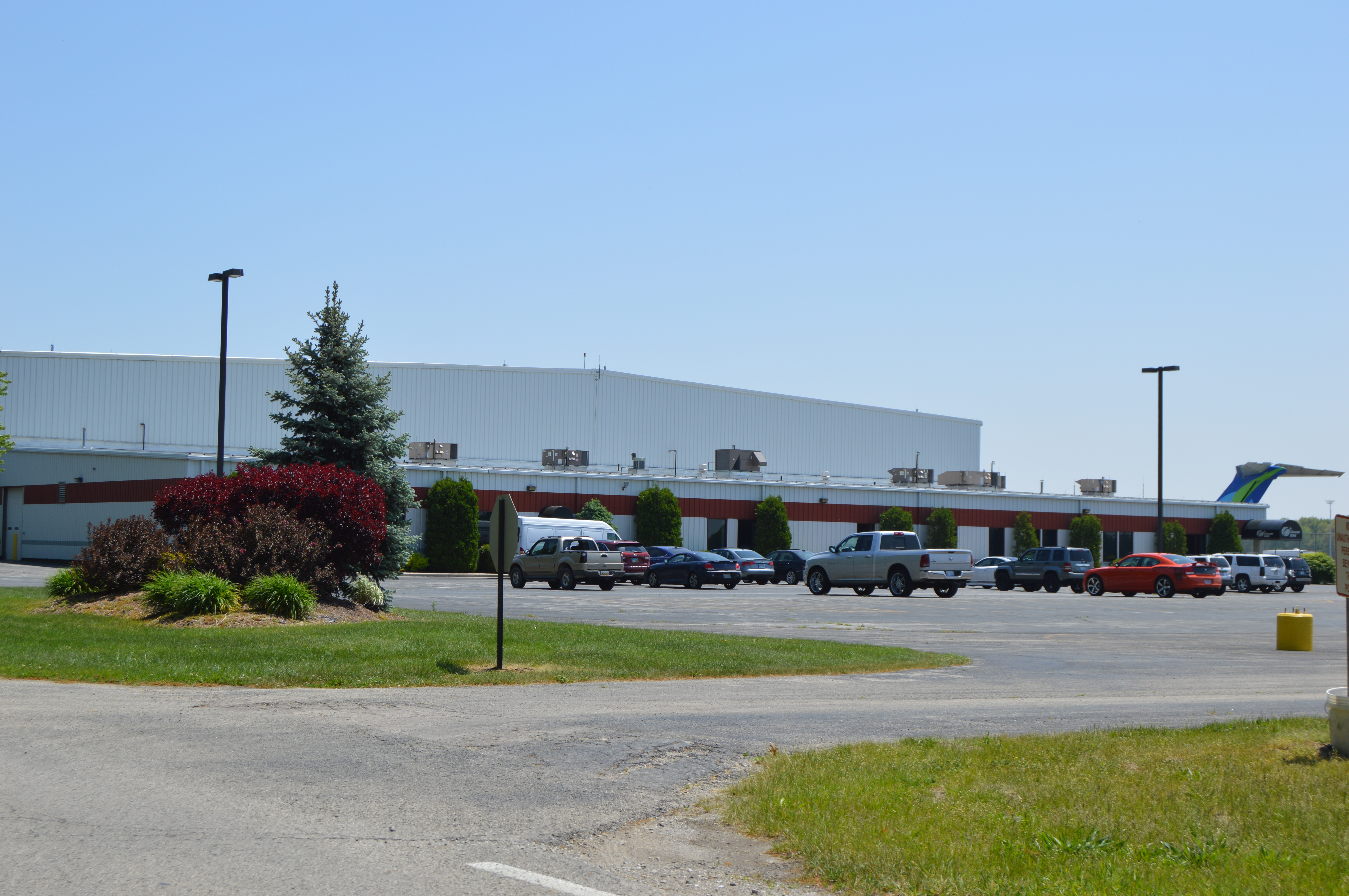 Northern and western sides of a hangar on the northwestern edge of the Toledo Express Airport, located just off State Route 2 in eastern Swanton Township, Lucas County, Ohio, United States.